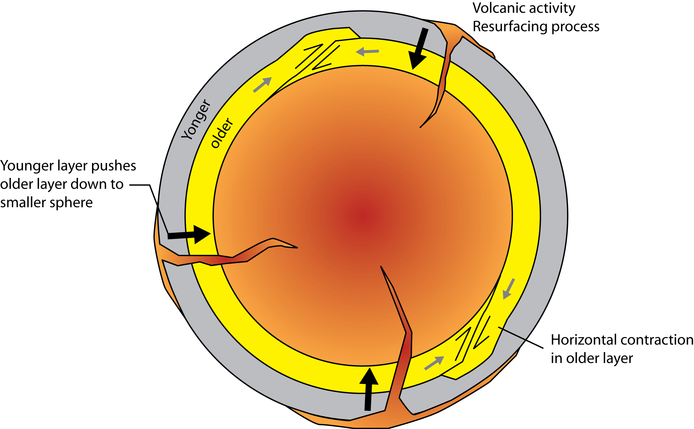 This figure shows geodynamic model of Io, it shows the resurfacing-process-induced shorting in older layer